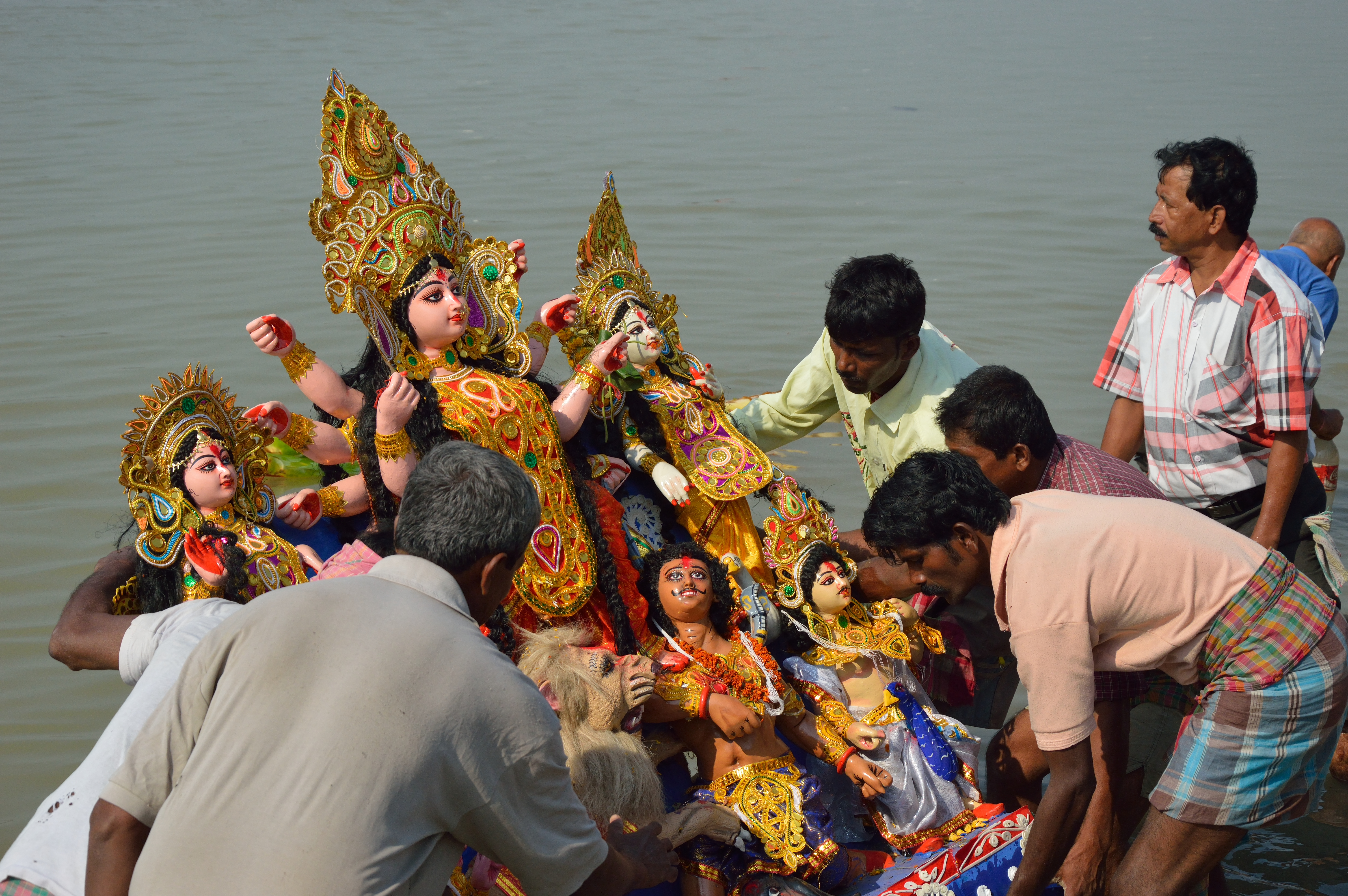 Photograph taken during the Bisarjan or Immersion at the end of Durga puja festival at the Baja Kadamtala Ghat of river Hooghli in Kolkata.